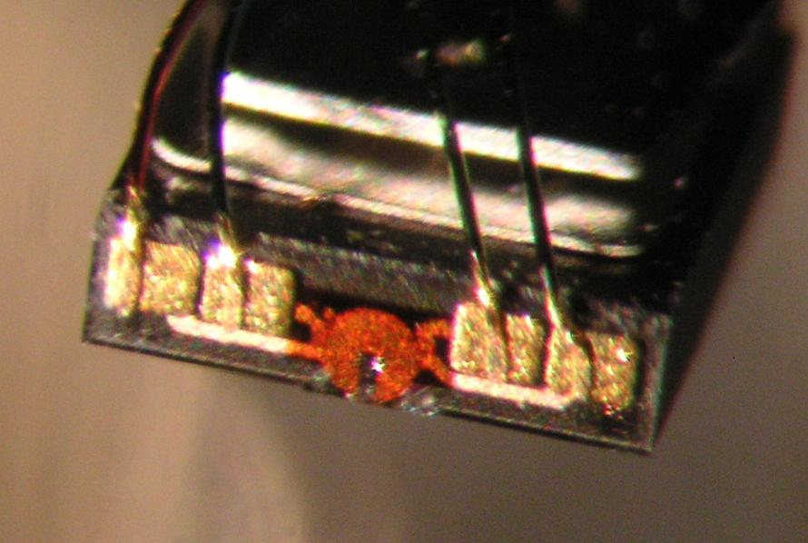 Microphotograph of a r/w head from a hard disk. Photo by User:Janke